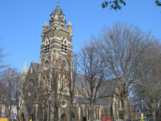 St Mark's parish church, St Mark's Rise, Dalston, seen from the southwest